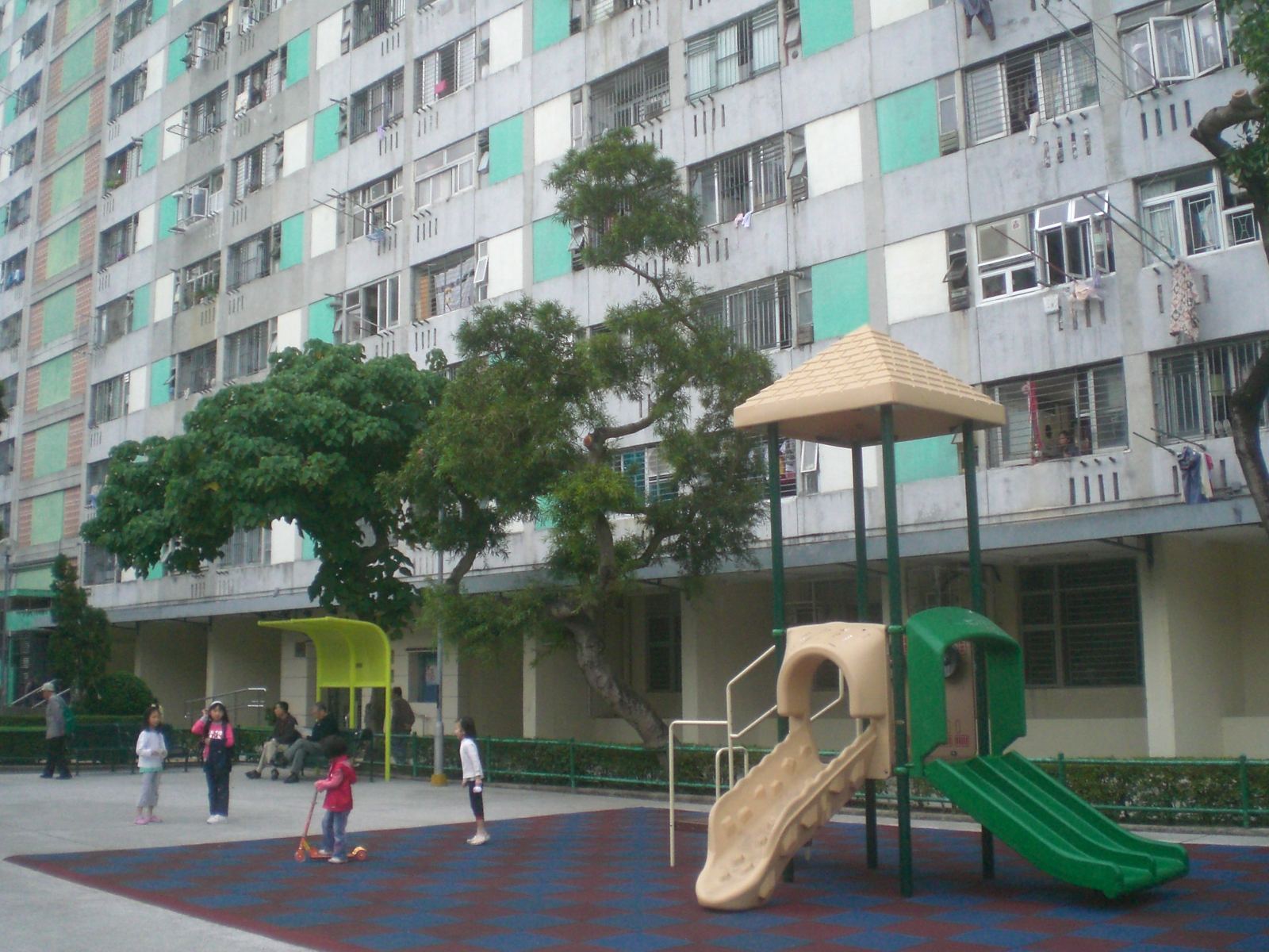 柴灣 漁灣邨